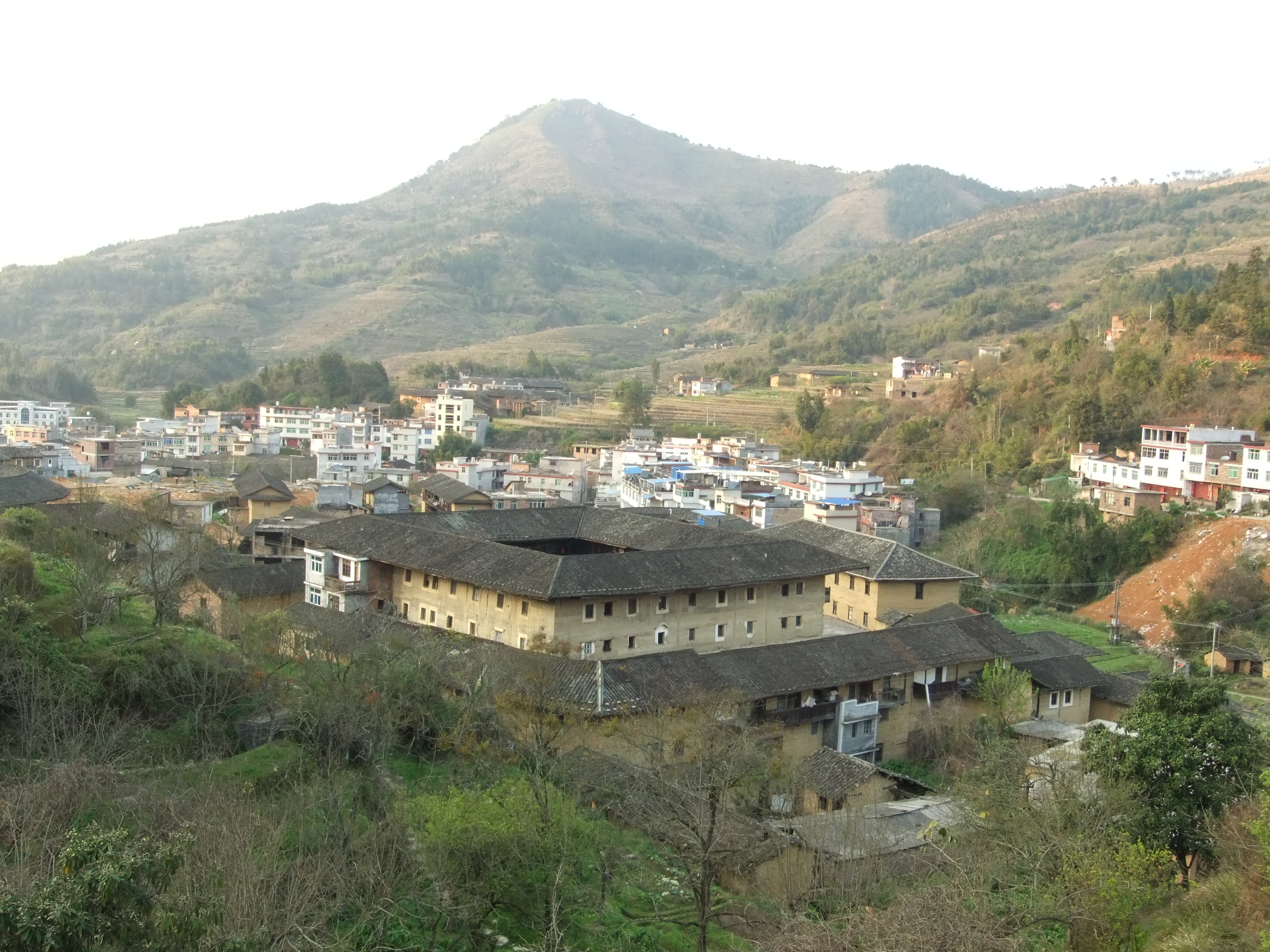 The central area of Gaotou Township (Yongding County, Fujian), seen from the new Hwy S319 that runs on high ground south-east of town. Early evening, with sunlight coming from the south-west.